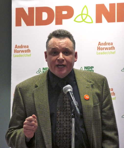 Former British Columbia Green Party Leader, Stuart Parker, giving his nomination speech at the Ontario NDP's St. Paul's nomination meeting for the upcoming provincial by-election. He ultimately lost the nomination to Julian Heller.